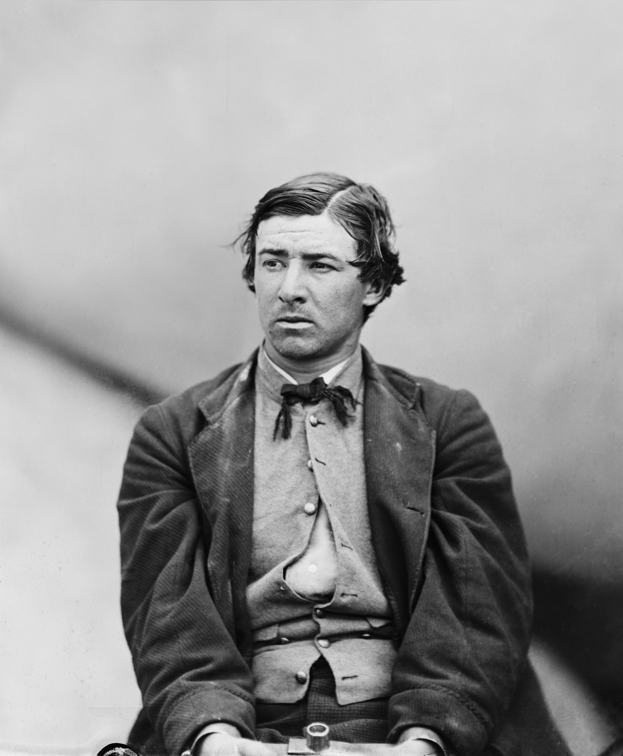 David E. Herold, one of the conspirators in the assassination of Abraham Lincoln, photographed in the Washington Navy Yards, Washington D.C., after his arrest. Retouched to clean up dust and scratches. Cropped from the original in the Library of Congress archives.